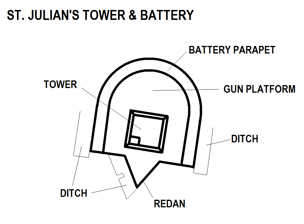 Map of St. Julian's Tower & Battery in Sliema, Malta. Today, the tower and semi-circular base of the battery remain intact, but the redan and parapets have been demolished and the ditches filled in.